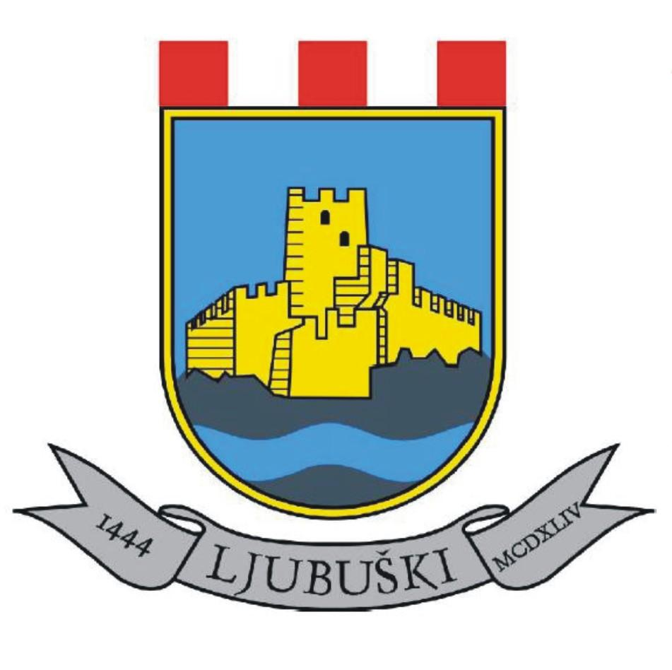 Coat of arms of the municipality Ljubuški